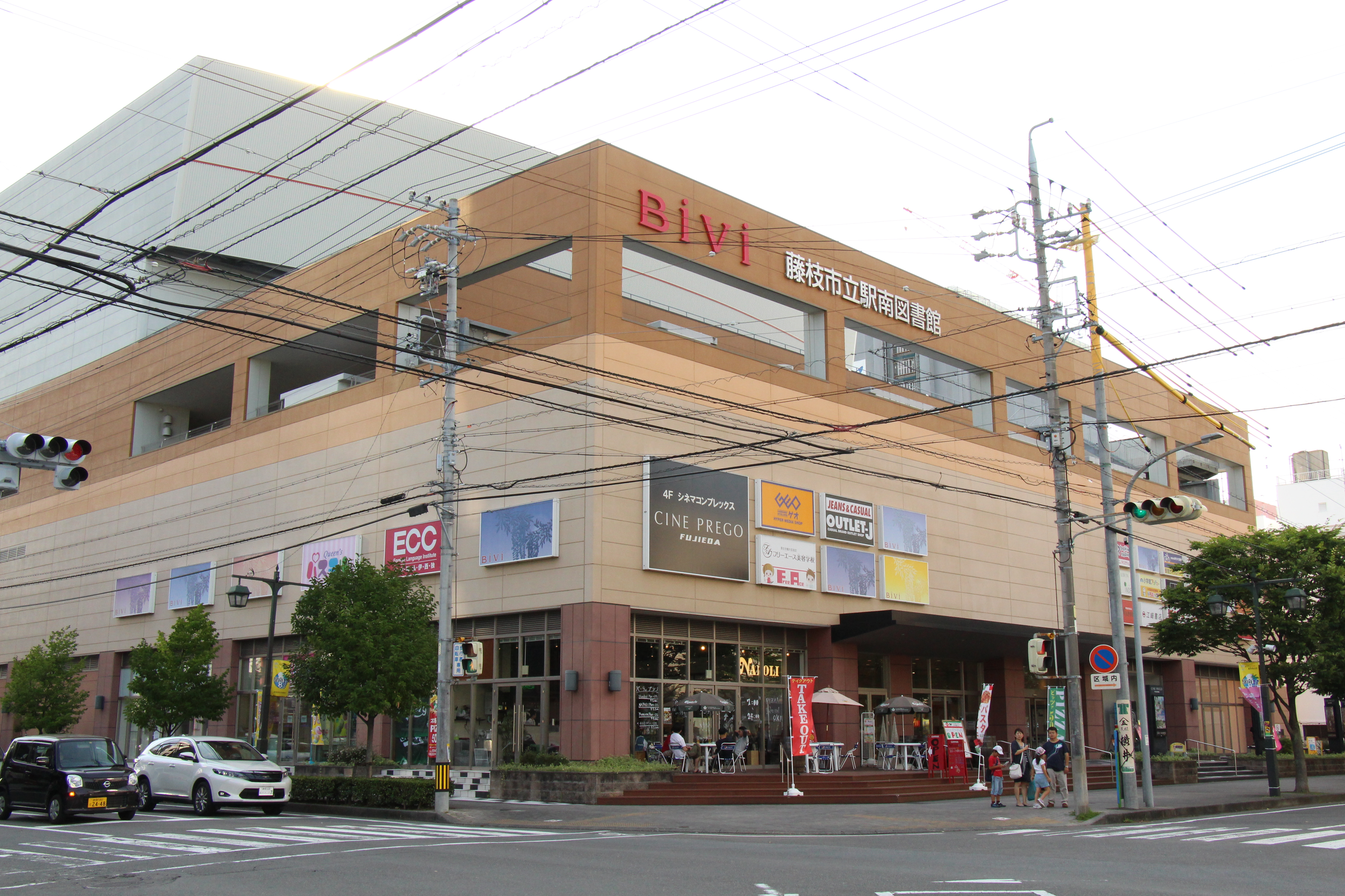 The photo of the exterior of BiVi Fujieda taken from south-east.